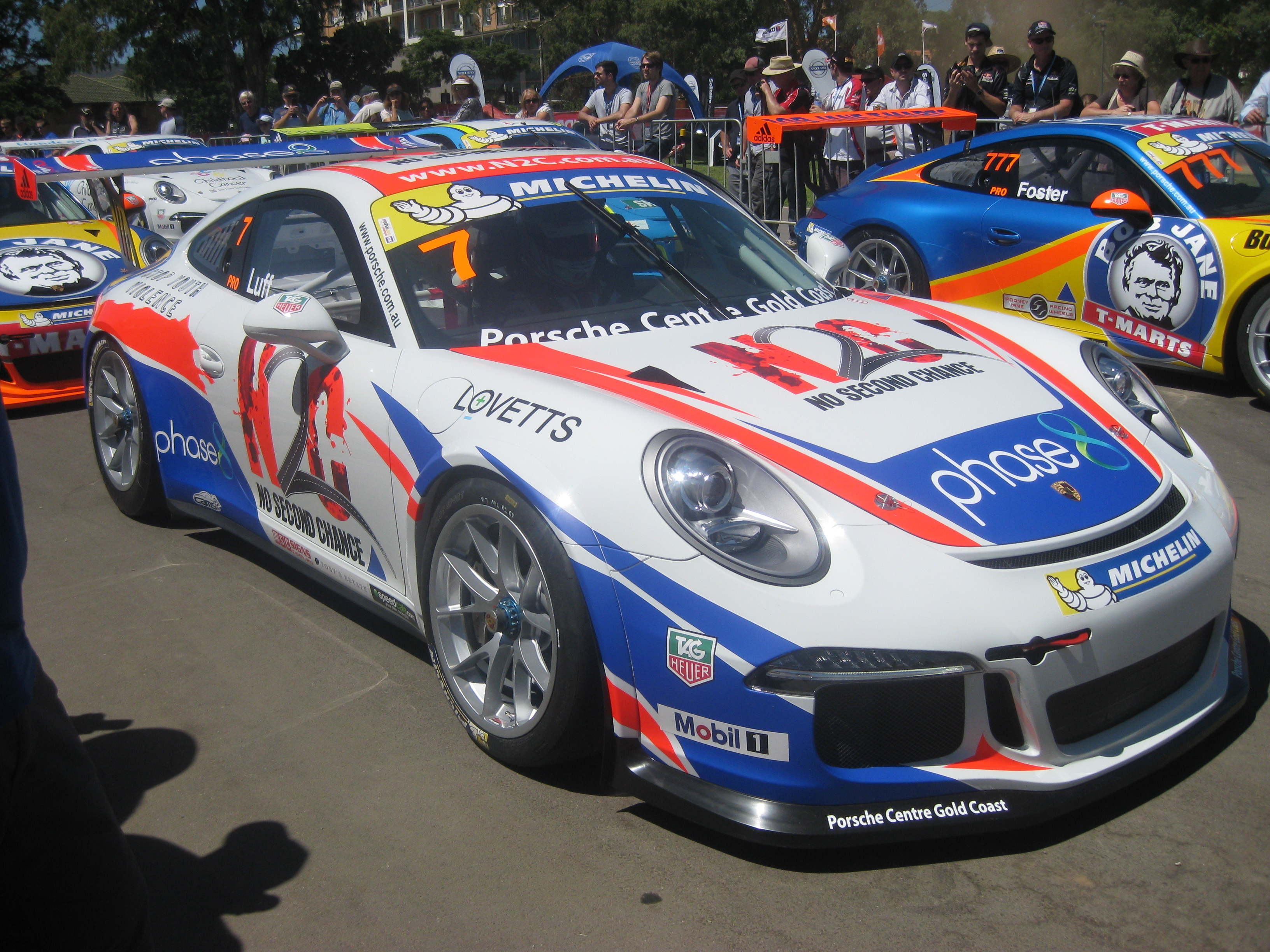 Porsche 911 GT3 Cup Type 991 of Brenton Ramsay. Round 1, 2014 Australian Carrera Cup Championship, Adelaide Parklands Circuit